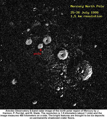 Arecibo Observatory S-band radar image of the north polar region of Mercury by J. Harmon, P. Perrilat and M. Slade. The resolution is 1.5 km (about 1 mile) and the image measures 450 km on a side. The bright features are thought to be ice deposits on permanently shadowed crater floors. Acquired 25-26 July 1999.